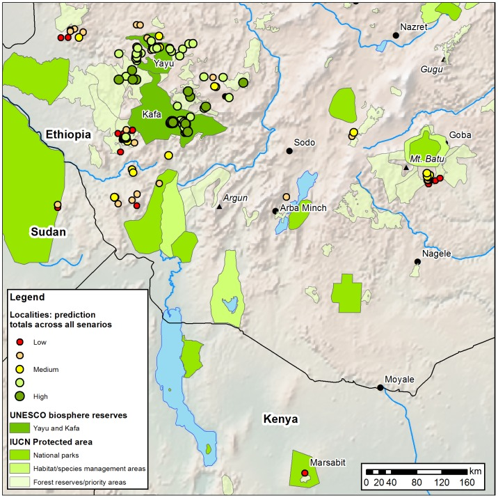 Point size and colour represent the total predicted score for each locality across all scenarios and time intervals (until 2080). Large dots (high score) represent ‘core localities’, i.e. those that predicted to withstand climate change until at least 2080. See internal legend for further details. Protected area data from [70]. Dedicated coffee reserves: Yayu = Yayu Coffee Forest UNESCO MAN Biosphere Reserve ( Accessed 2012 May 10), included within the Yayu National Forest Priority Area (NFPA) ( Accessed 2012 May 10); Kafa = Kafa Coffee Biosphere Reserve UNESCO Biosphere Reserve ( Accessed 2012 May 10). Note. Controlled Hunting Areas not shown.